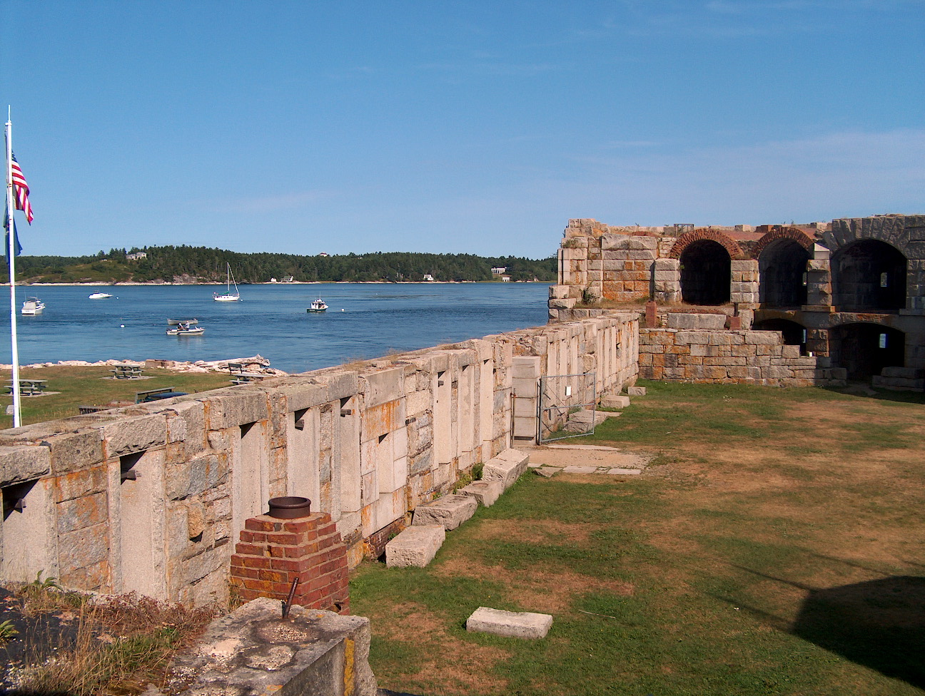 The rear curtain wall and northern end of Fort Popham and the Atkins Bay arm of the Kennebec River in Maine. Photo by Ken Gallager, August 19, 2005.